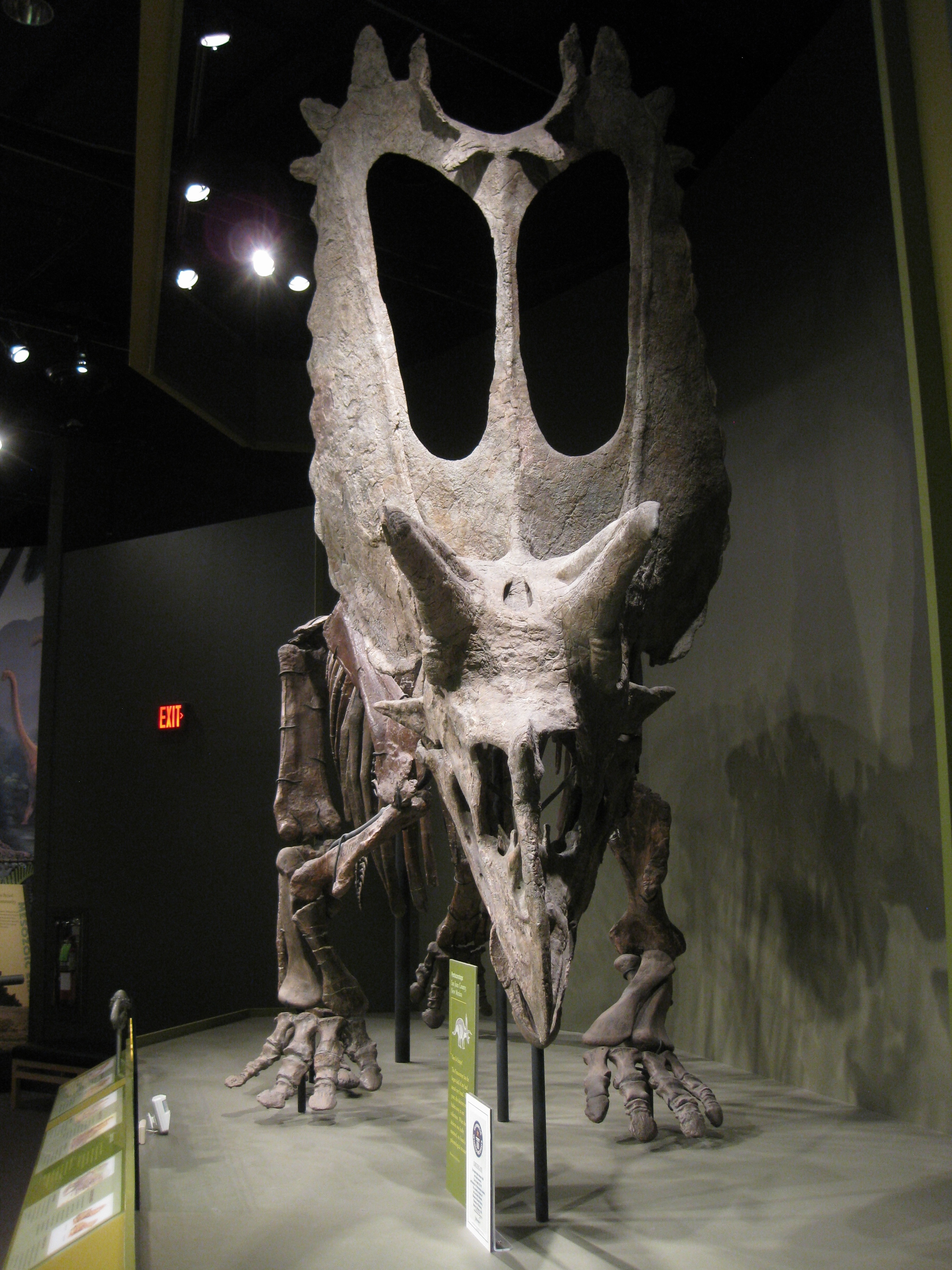 This has the largest skull of any land animal ever found.